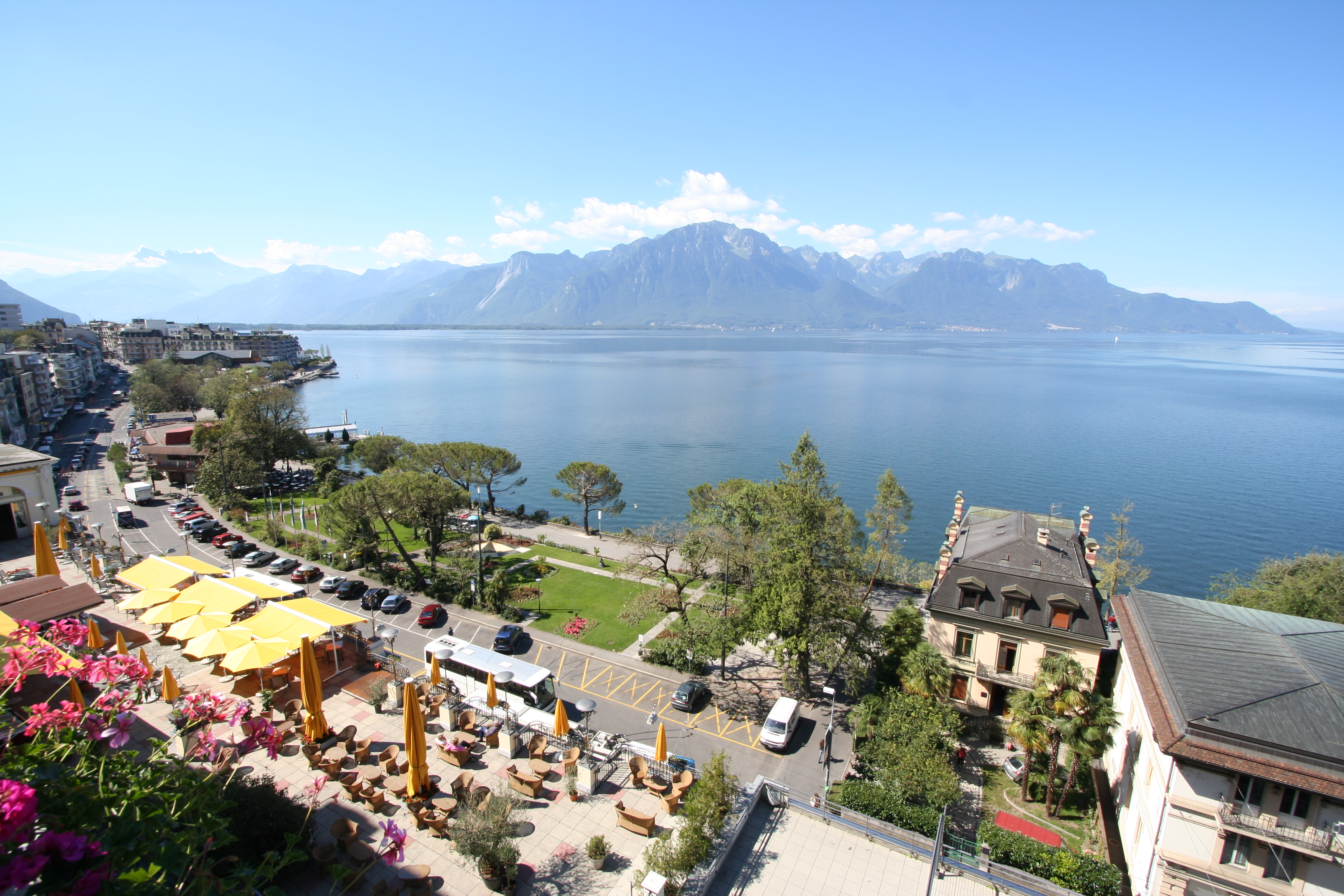 A photo taken by my brother, Ahmed, in Montreux, Switzerland. Looking at Lake Geneva and at France on the other side of the lake.